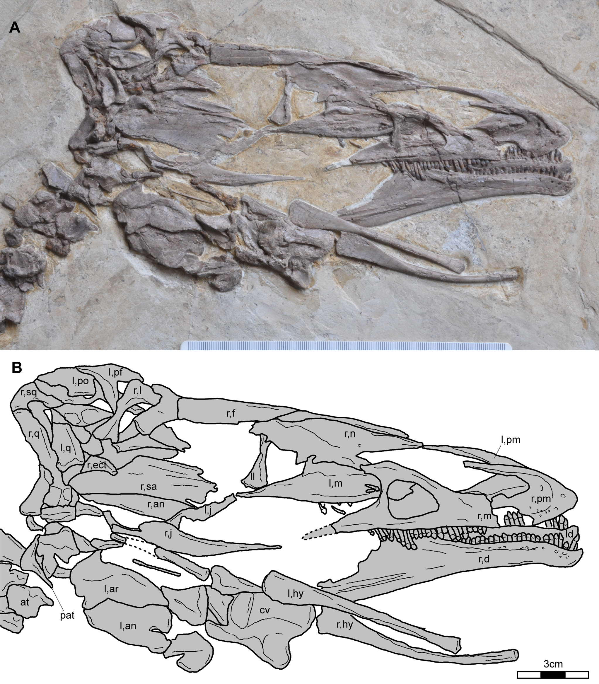 Photograph of the skull of Jianchangosaurus yixianensis gen. et sp. nov. (A) and line drawing (B). show more The right side of the skull is better exposed than the left side. The braincase and palatal bones are displaced. The seventh cervical vertebra is preserved next to the hyoids. Abbreviations: ect, ectopterygoid; hy, hyoids; mxf, maxillary fenestra; A, a large foramen at the base of the internarial bar of the premaxilla; B, a large foramen within the narial fossa of the premaxilla; C, a maxillary foramen above the eighth maxillary tooth; see captions for figures 1 and 2 for other abbreviations. Scale bars are 3 cm.